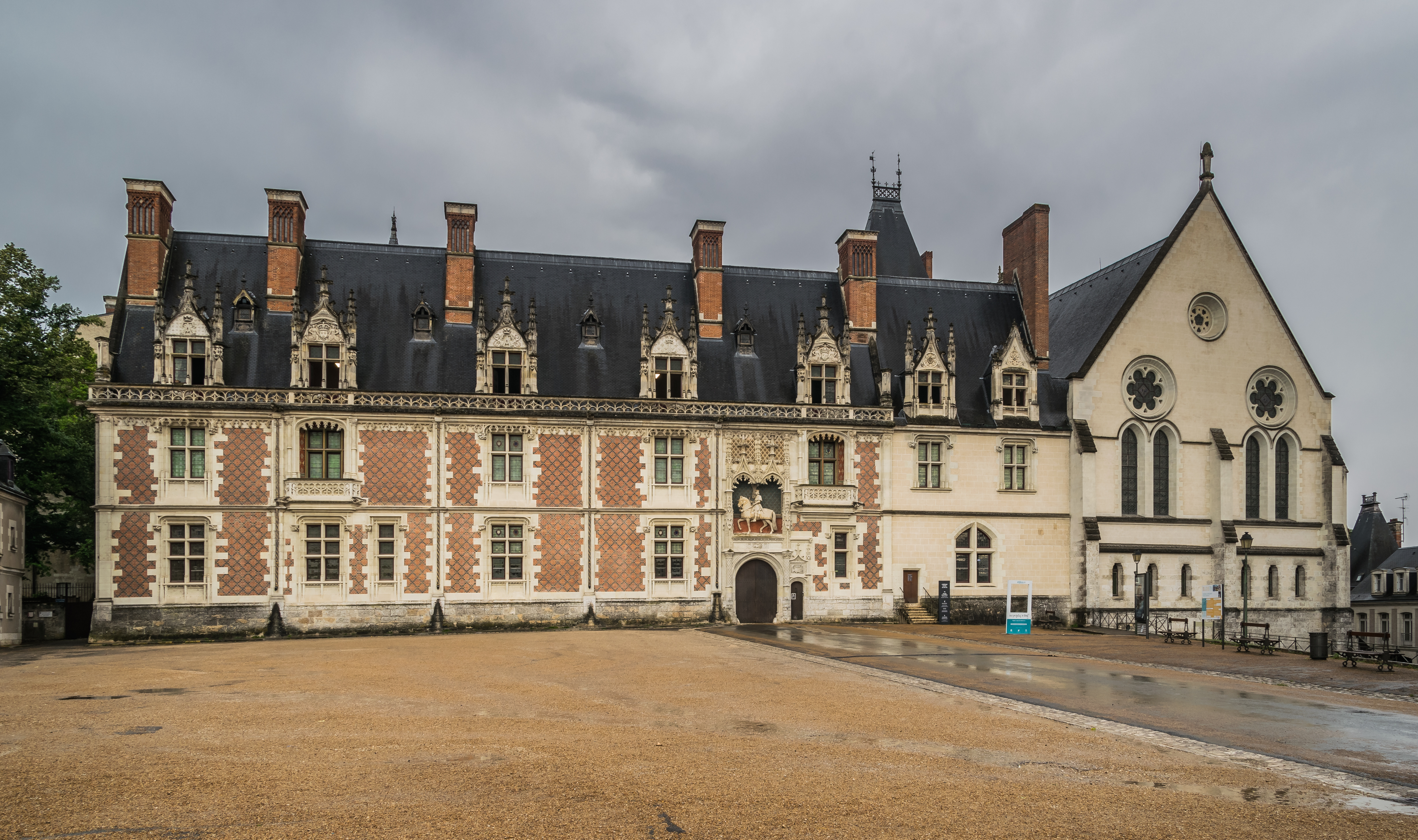 Louis XII wing of the castle of Blois, Loir-et-Cher, France It is indexed in the Base Mérimée, a database of architectural heritage maintained by the French Ministry of Culture, under the references IA00141119 and PA00098337 .